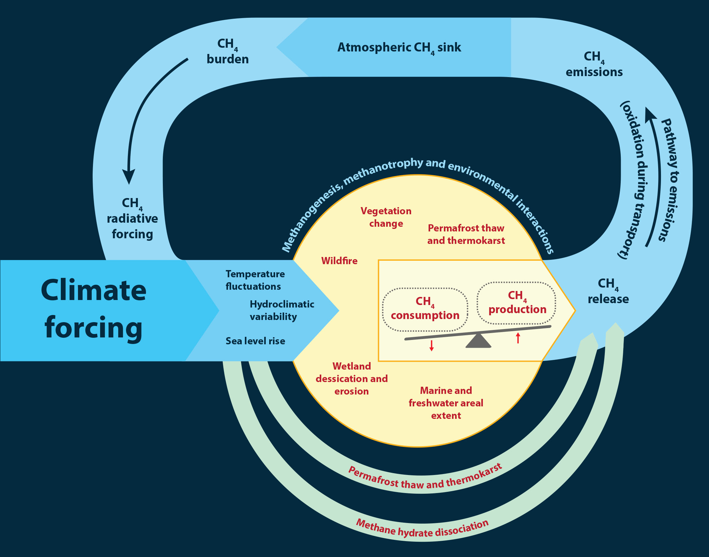 Schematic of the methane climate feedback loop showing how feedback mechanisms relate to each other: each feedback mechanism (within the yellow circle) is forced by climate change, altering methane emissions to the atmosphere. Direct methane feedbacks are indicated with green arrows, and indirect feedbacks are within the yellow circle. After production, methane is exposed to oxidation before being emitted to the atmosphere where it is then consumed by the atmospheric methane sink. The amount of methane in the atmosphere causes radiative forcing (the greenhouse effect) that feeds back to the overall climate forcing, completing the positive methane climate feedback loop (shown in light blue).